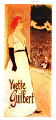 Price, Charles Matlack (1913) Posters: a critical study of the development of poster design in Continental Europe, England and America, Category:New York: George W. Bricka, p. 49 Retrieved on 13 September 2013.